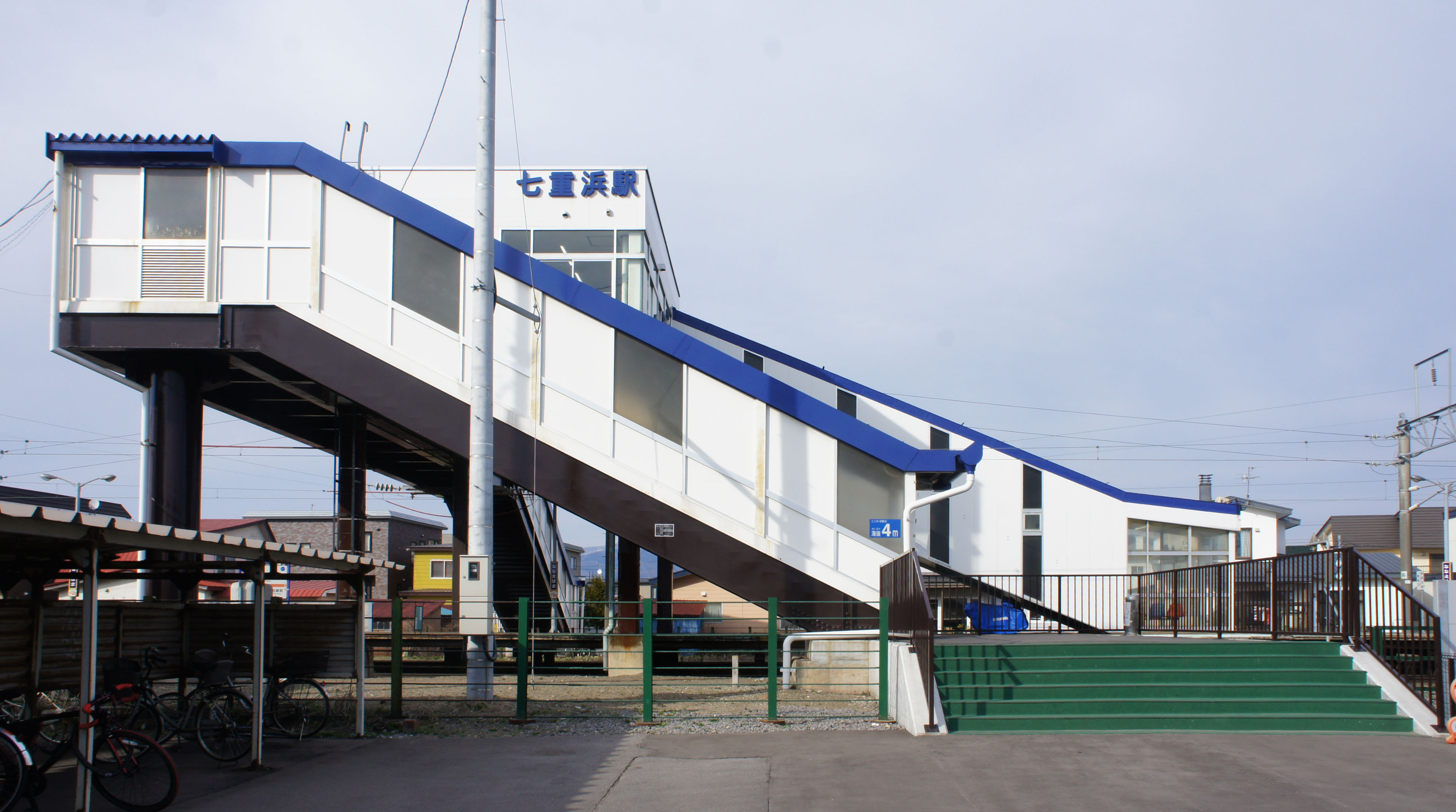 South Exit of South Hokkaido Railway Line Nanaehama Station Sony NEX-3 + E 18-55mm F3.5-5.6 OSS